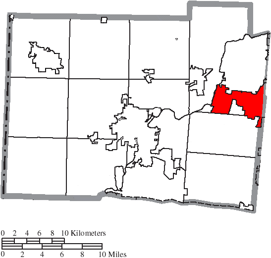 Map of the municipal and township boundaries of Butler County, Ohio, United States, as of the 2000 census, with the location of the city of Monroe highlighted. Township borders are shown only in unincorporated areas in order to differentiate incorporated and unincorporated areas more clearly.